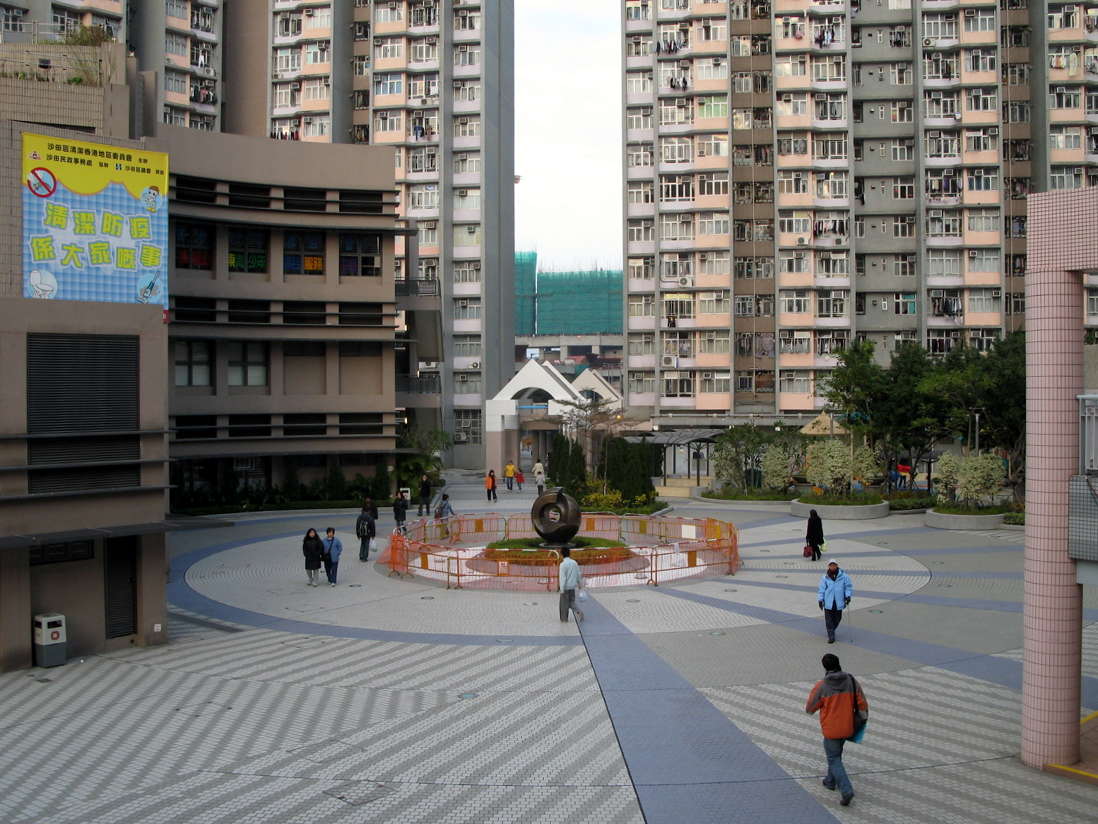 Entry Plaza in Lee On Estate, Ma On Shan